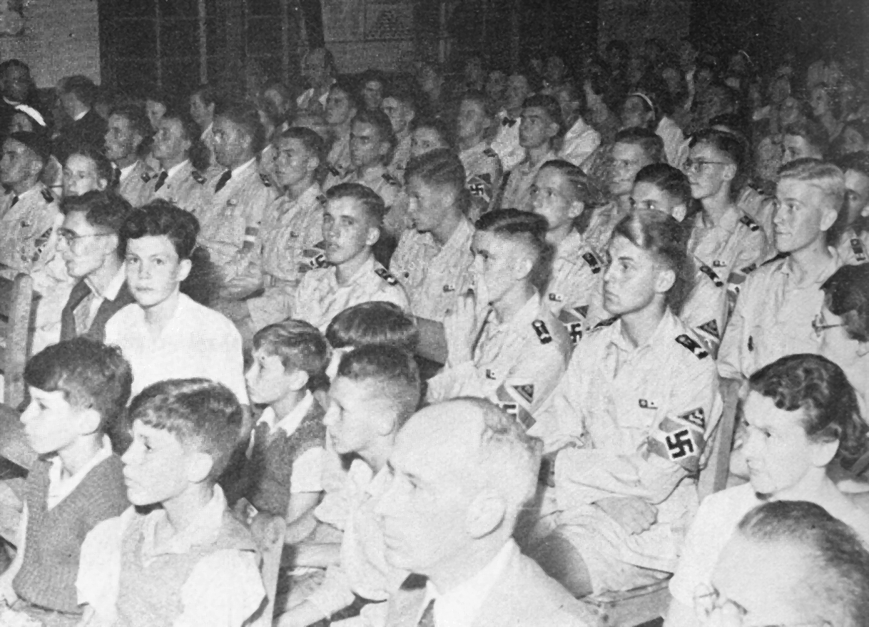 About 120 members of a visiting troupe of the Hitler Youth at a preview of the propaganda film “Tale of a Pasture“ (牧場物語), produced by Tōhō, director Kimura Sotoji at the Karuizawa Hall 24th Aug. 1938. The film was sponsored by Nippon Bunka Chuo Renmei (“Central Federation of Nippon Culture”).